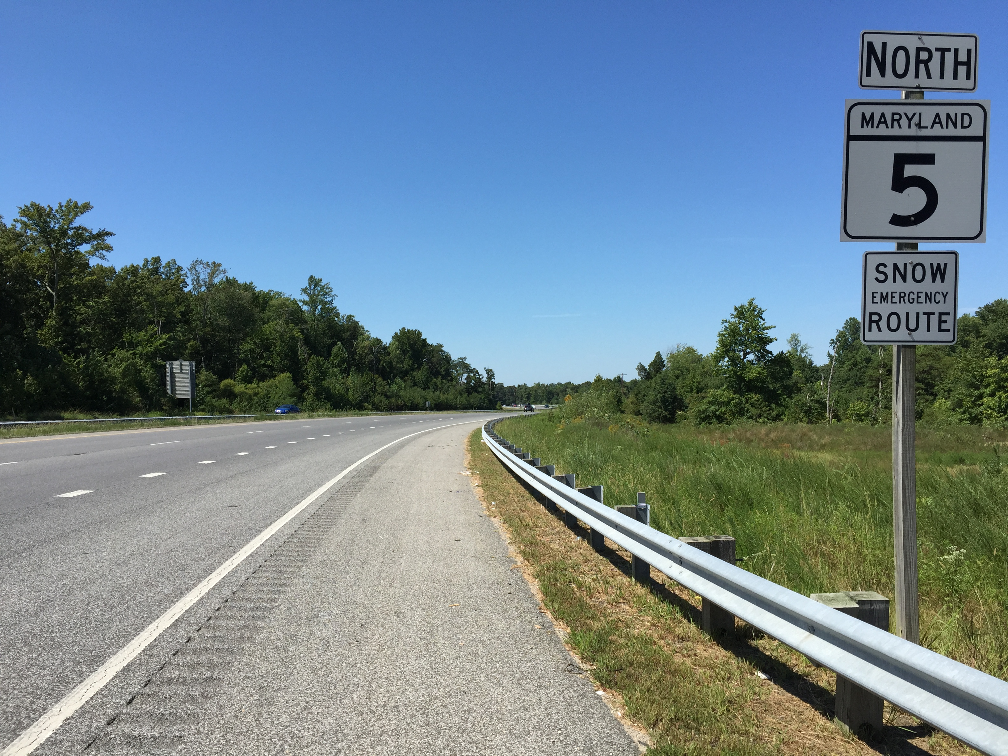 View north along Maryland State Route 5 (Leonardtown Road) between Maryland State Route 231 (Prince Frederick Road) and Maryland State Route 625 (Old Leonardtown Road) in Hughesville, Charles County, Maryland